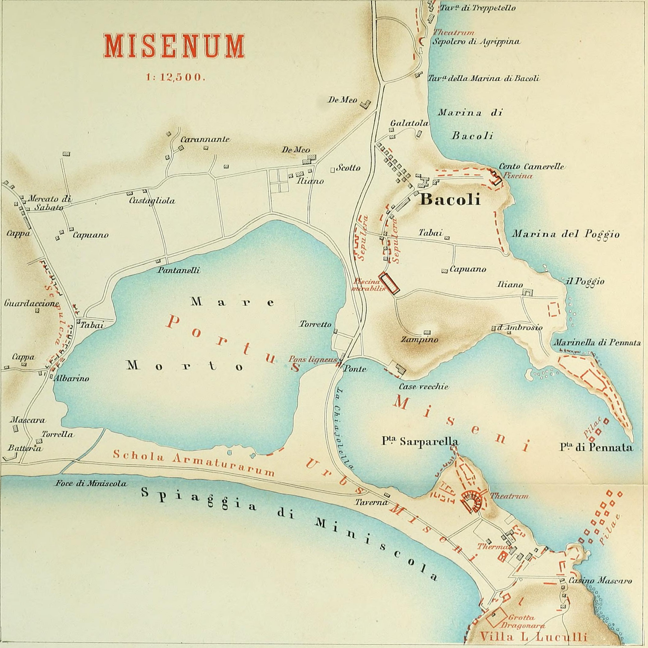 Map of ancient Misenum. From Karl Julius Beloch: Campanien. Breslau, 1890.